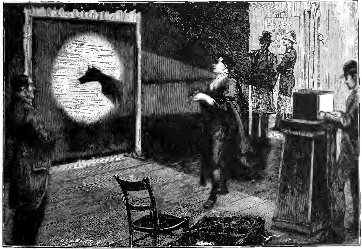 The magician Félicien Trewey